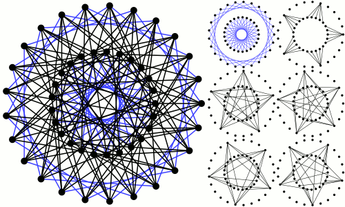 Hoffman-Singleton Graph as 2 circles